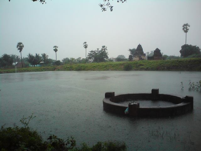 on a rainy day shiv temple in back ground